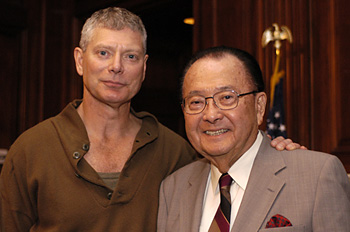 Actor Stephen Lang and Senator Daniel Inouye (Hawaii) at a special performance of Beyond Glory at the U.S. Senate in May 2005.